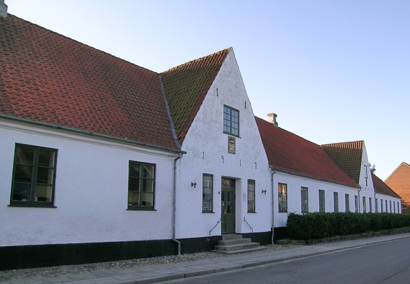 Sct. Jørgens gård, Kolding, Denmark. The building is a joining of Sct. Jørgens Hospital from 1558 (southern part) and the old town hospital from 1838. The two former buildings were joined during a modernisation in 1917. Protected by law.